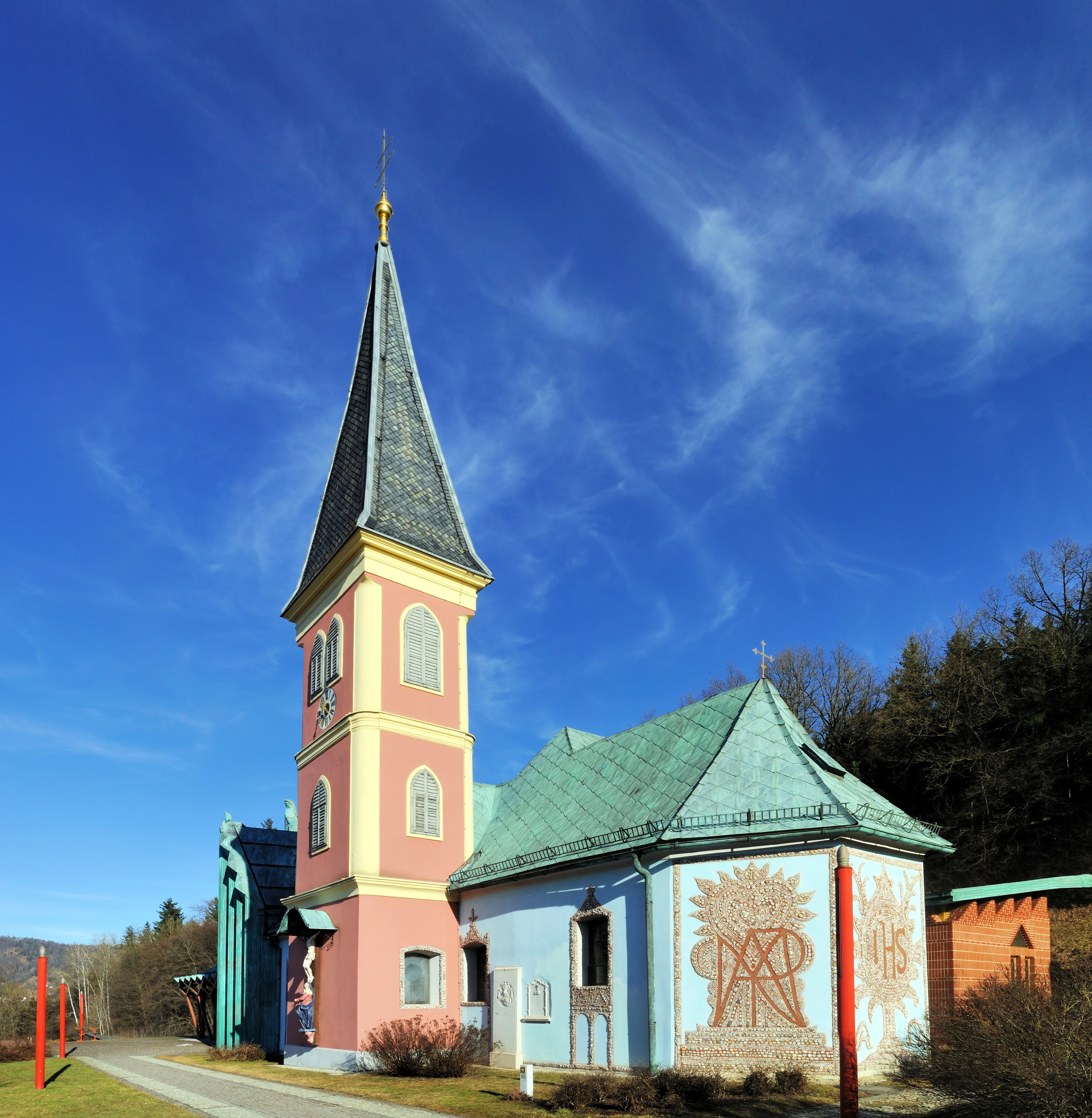 Thal: Saint Jacob church